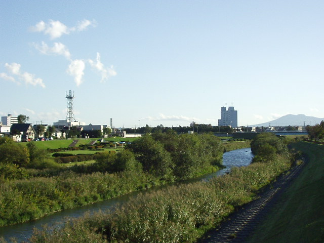 Izari River. Eniwa, Hokkaidō prefecture, Japan.